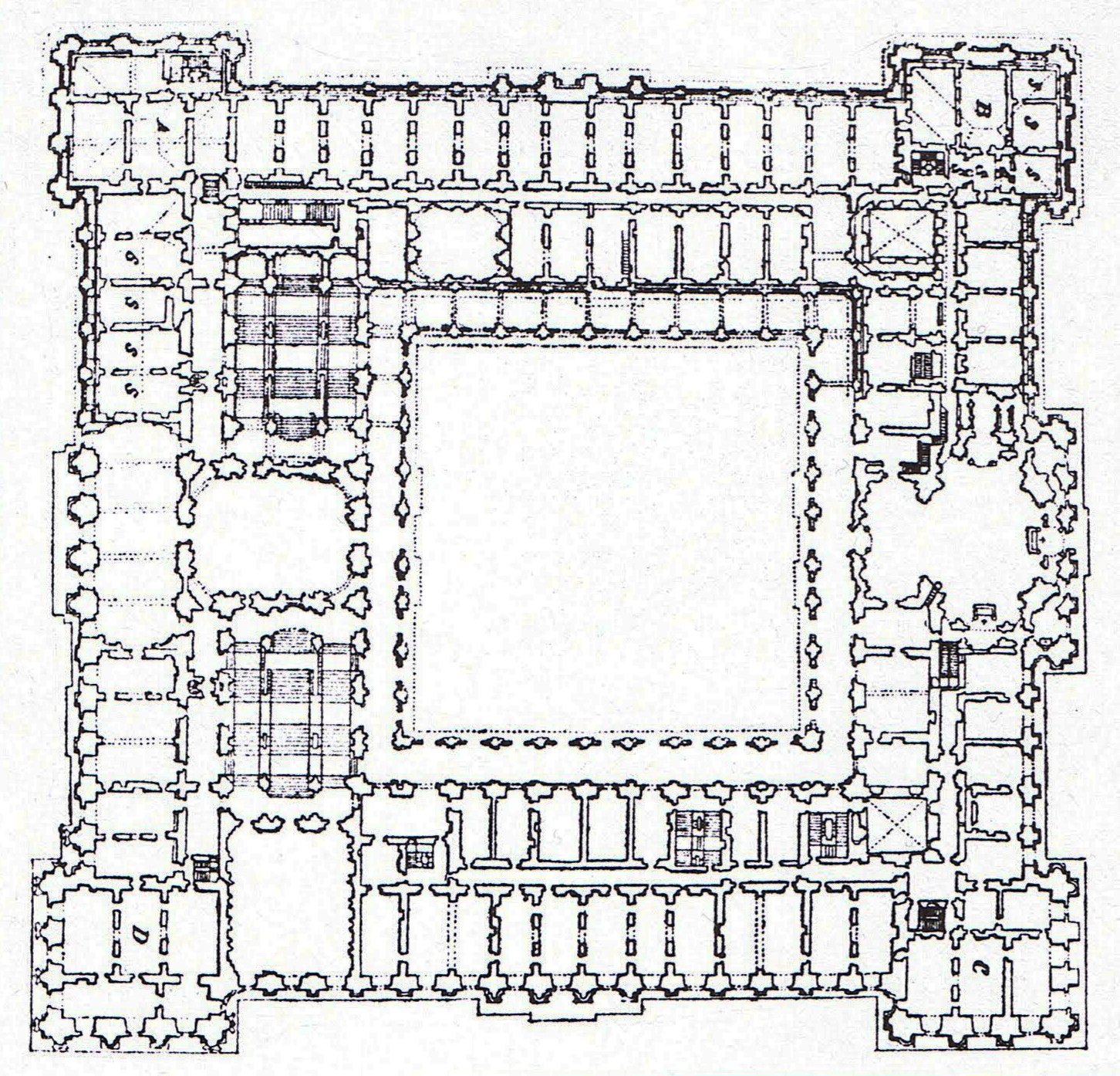 Plant of the Royal Palace of Madrid, according to the project of Sachetti. Guía of architecture 1700-1800 by Ramon Guerra de la Vega.